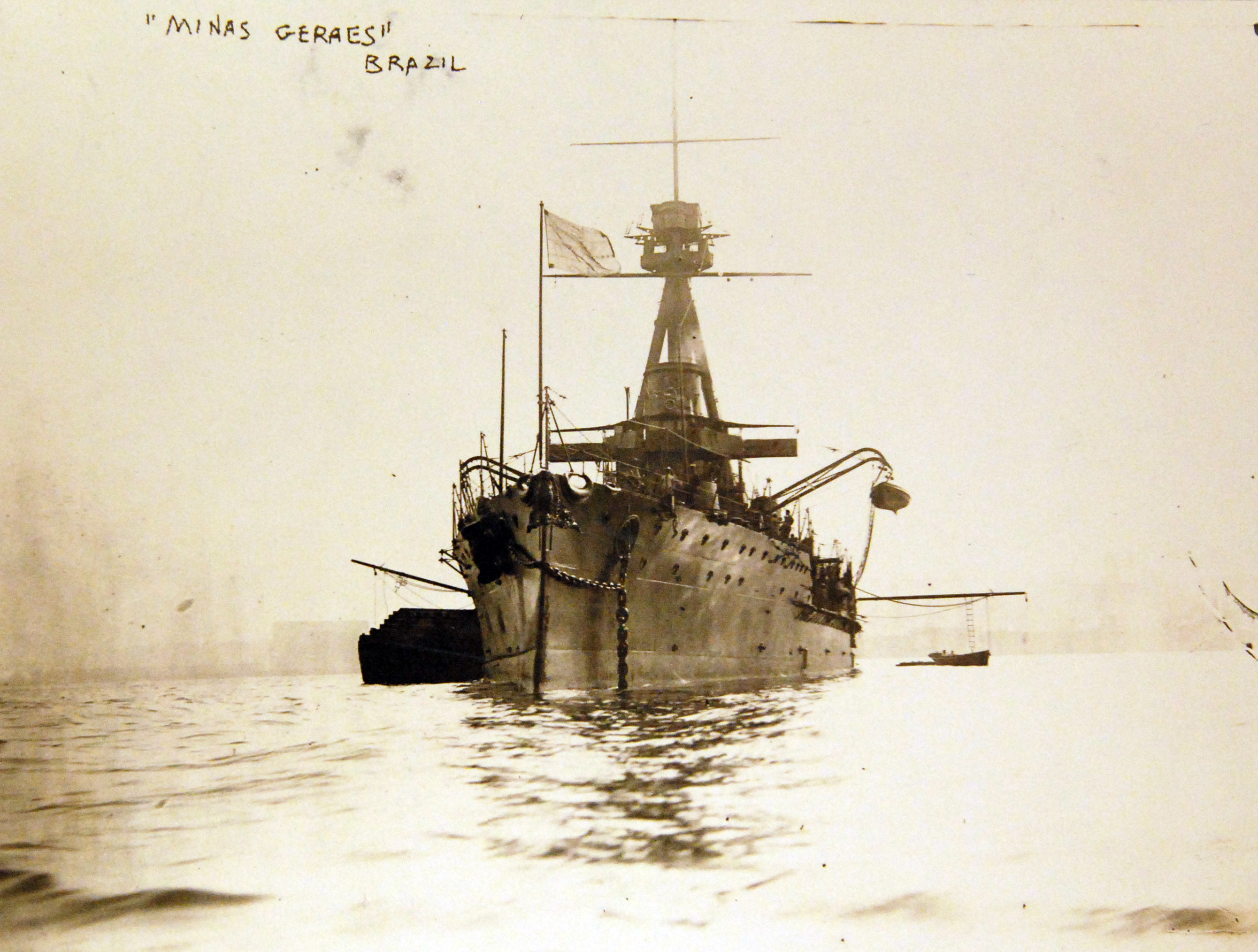 Lot-11256-4: Brazilian battleship, Minas Geraes (1910-1952), 1910s Bain Collection. Courtesy of the Library of Congress. (2017/08/04).